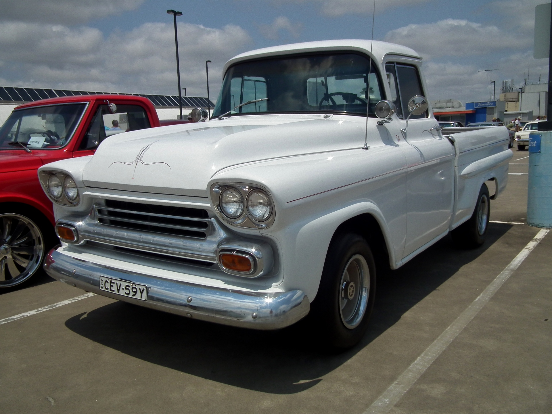 1959 Chevrolet pickup. Taken at the 2014 New South Wales All American Day, held at Castle Towers Shopping Centre, Castle Hill, Sydney.